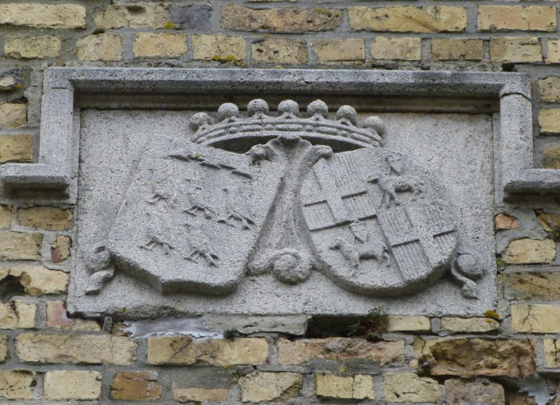 Familieschild familie de Vinck - boven inkom kapel